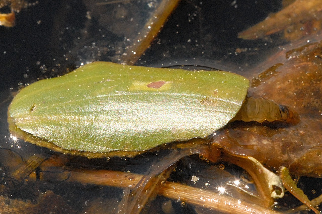 Elophila nymphaeata from Commanster, Belgian High Ardennes .